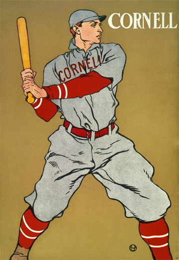 A Cornell University baseball poster, first published in 1908. Created by Edward Penfield (1866-1925).